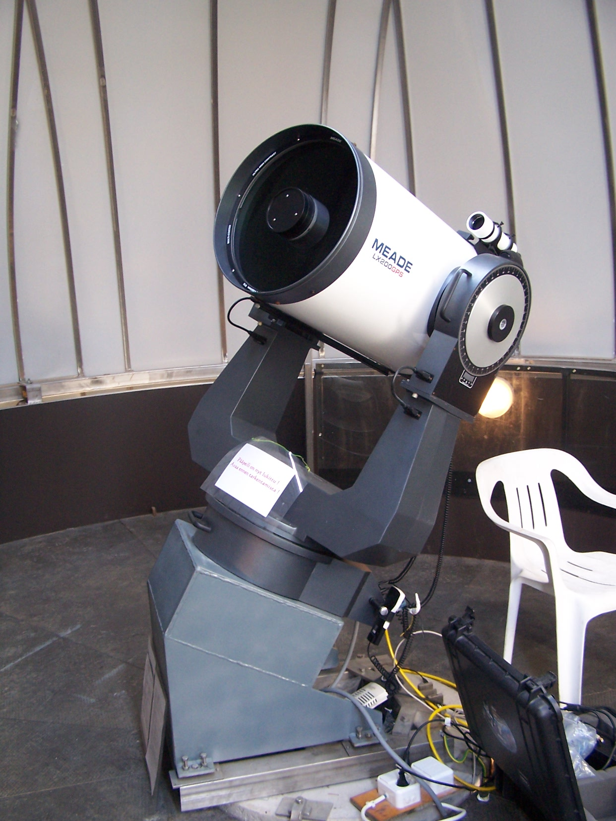 42 cm telescope at Tähtikallio observatory in Artjärvi, Finland